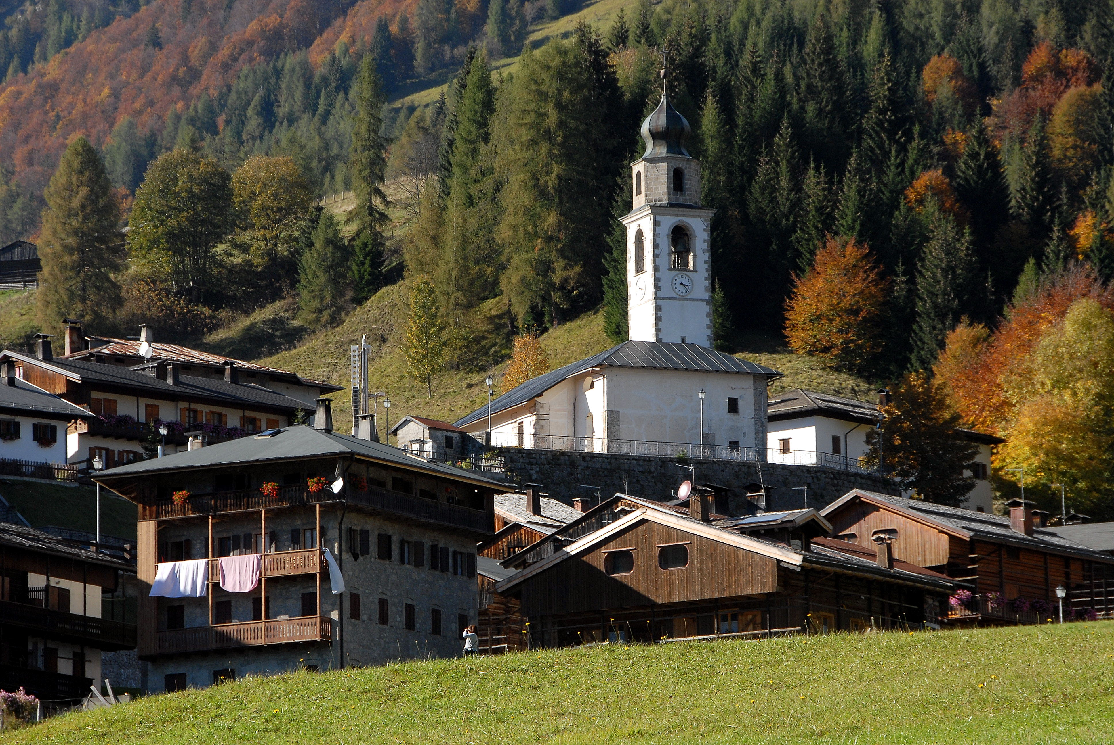 Sauris di sotto with the church of Saint Oswald in the community Sauris, region Friuli Venezia-Giulia, Italy